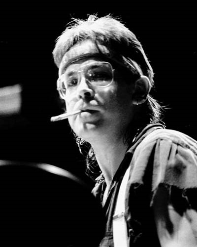 Jeff Porcaro on the drums on the Toto Fahrenheit World Tour in Blaisdell Arena, Honolulu, Hawai, November 10th 1986